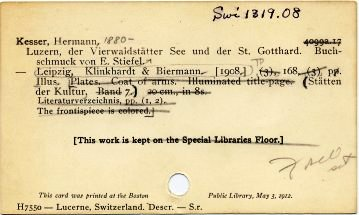 Catalog card used in the Harvard College Library. The classification Swi denotes Swiss History & Literature